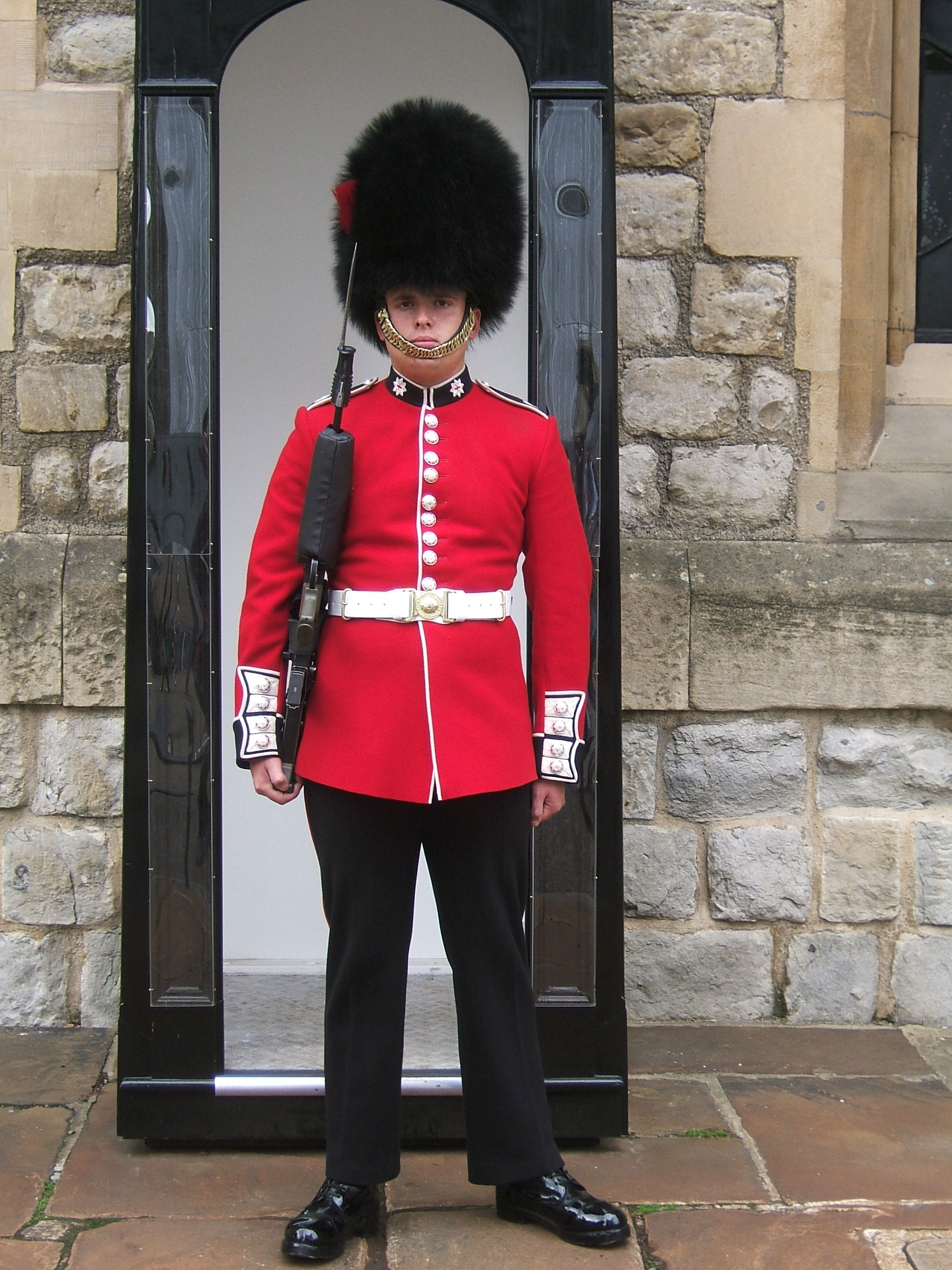 Coldstream Guards sentry outside the Jewel House in the Tower of London.